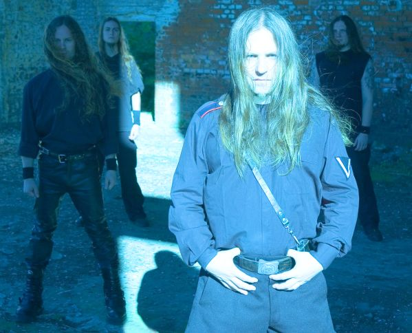 Vader a polish death metal band